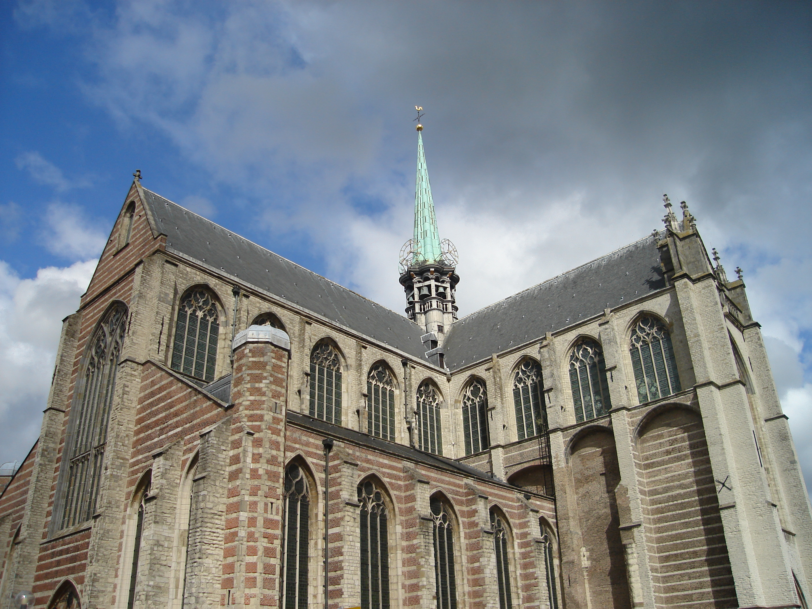 Maria Magdalenakerk in Goes, the Netherlands